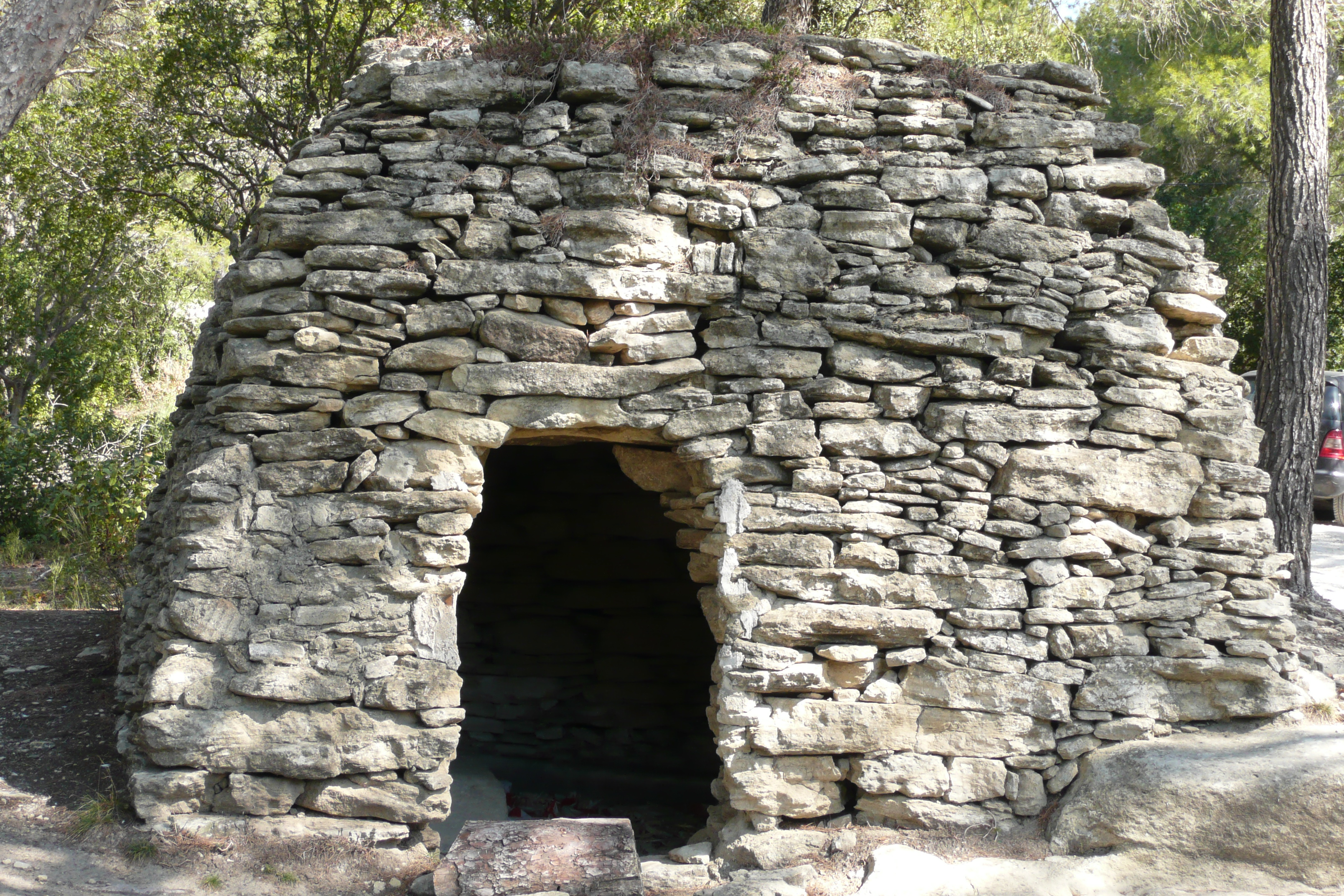 Dry stone hut at Saumane-de-Vaucluse, Vaucluse, France